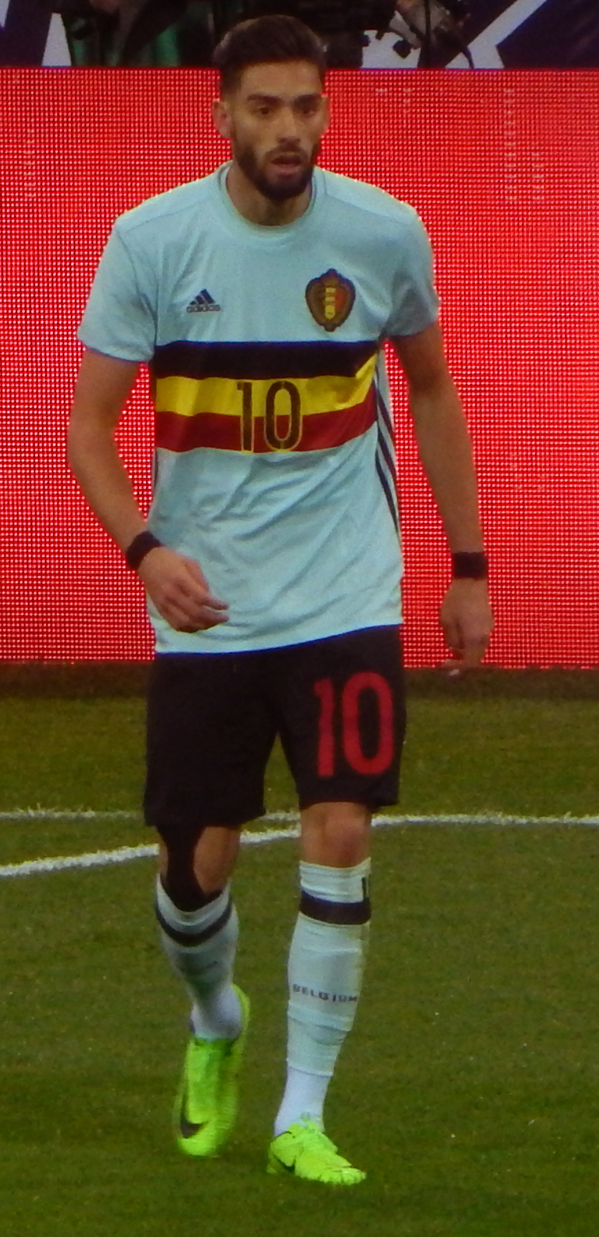 This photo was taken on March 28, 2017 during the exhibition game between Russia and Belgium. That game was held in Adler (City of Sochi) at the Fisht stadium.